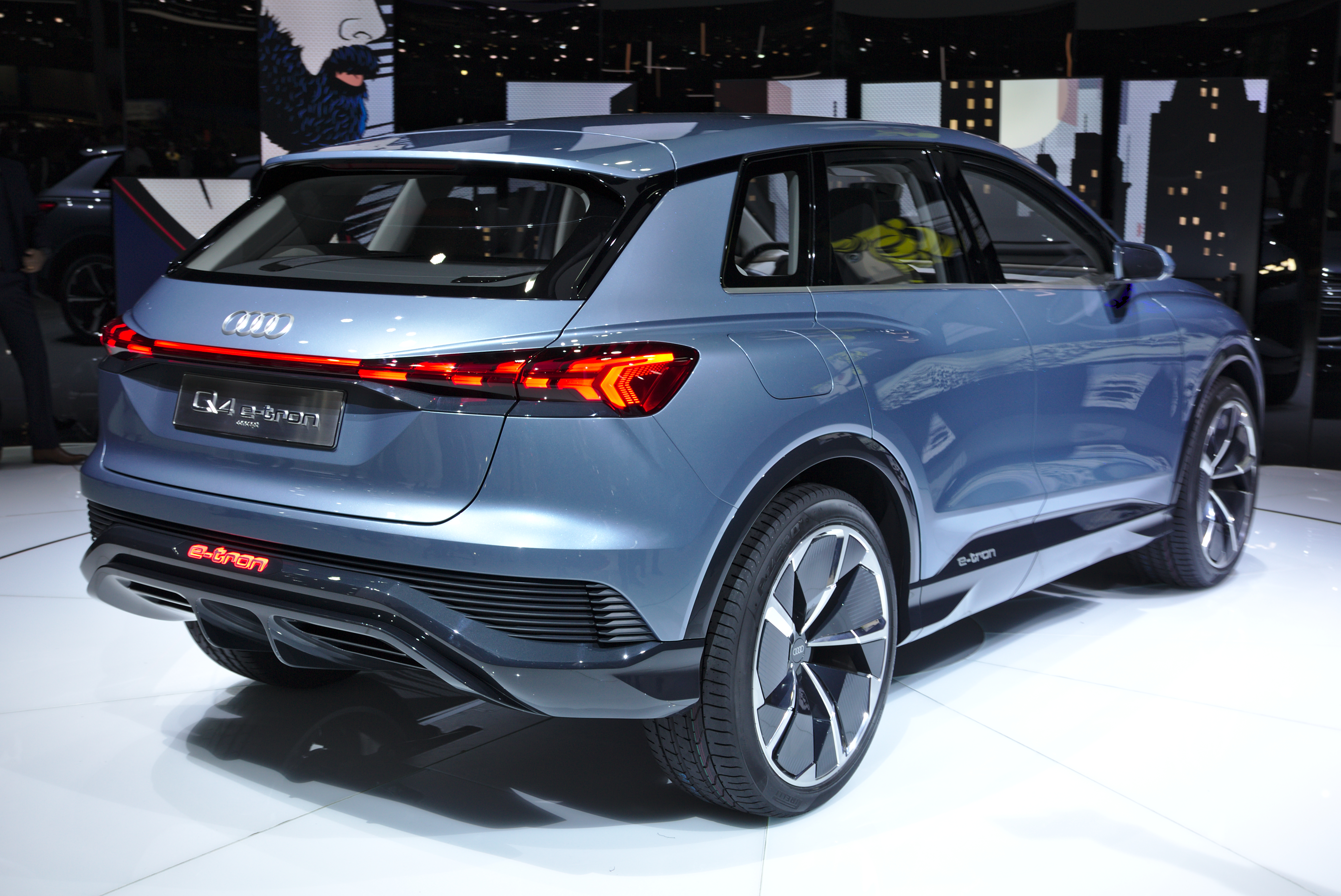 Audi Q4 e-tron concept at Geneva Motor Show 2019